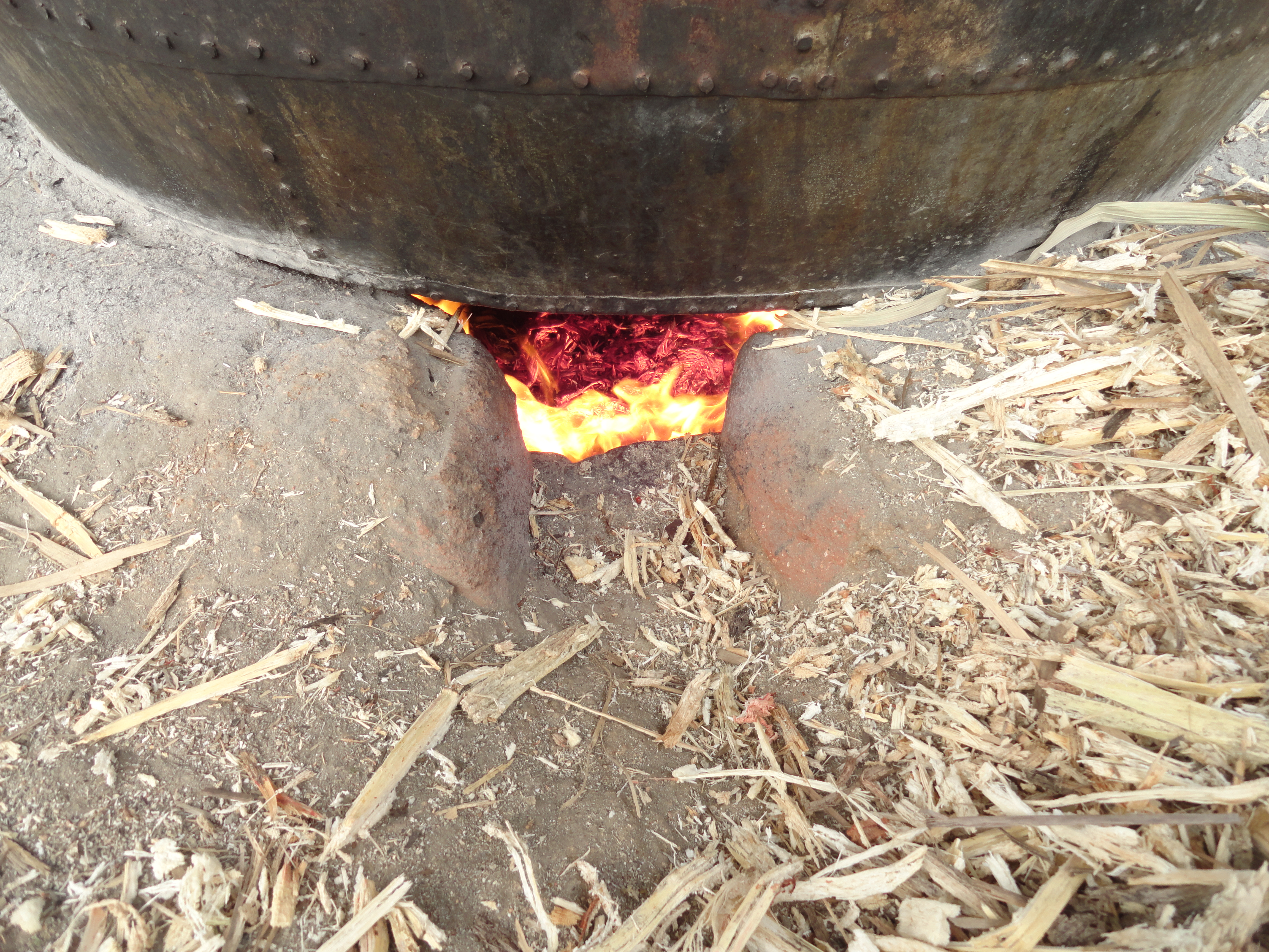 Heating the sugarcane juice in a big vessel for preparing jogger y.